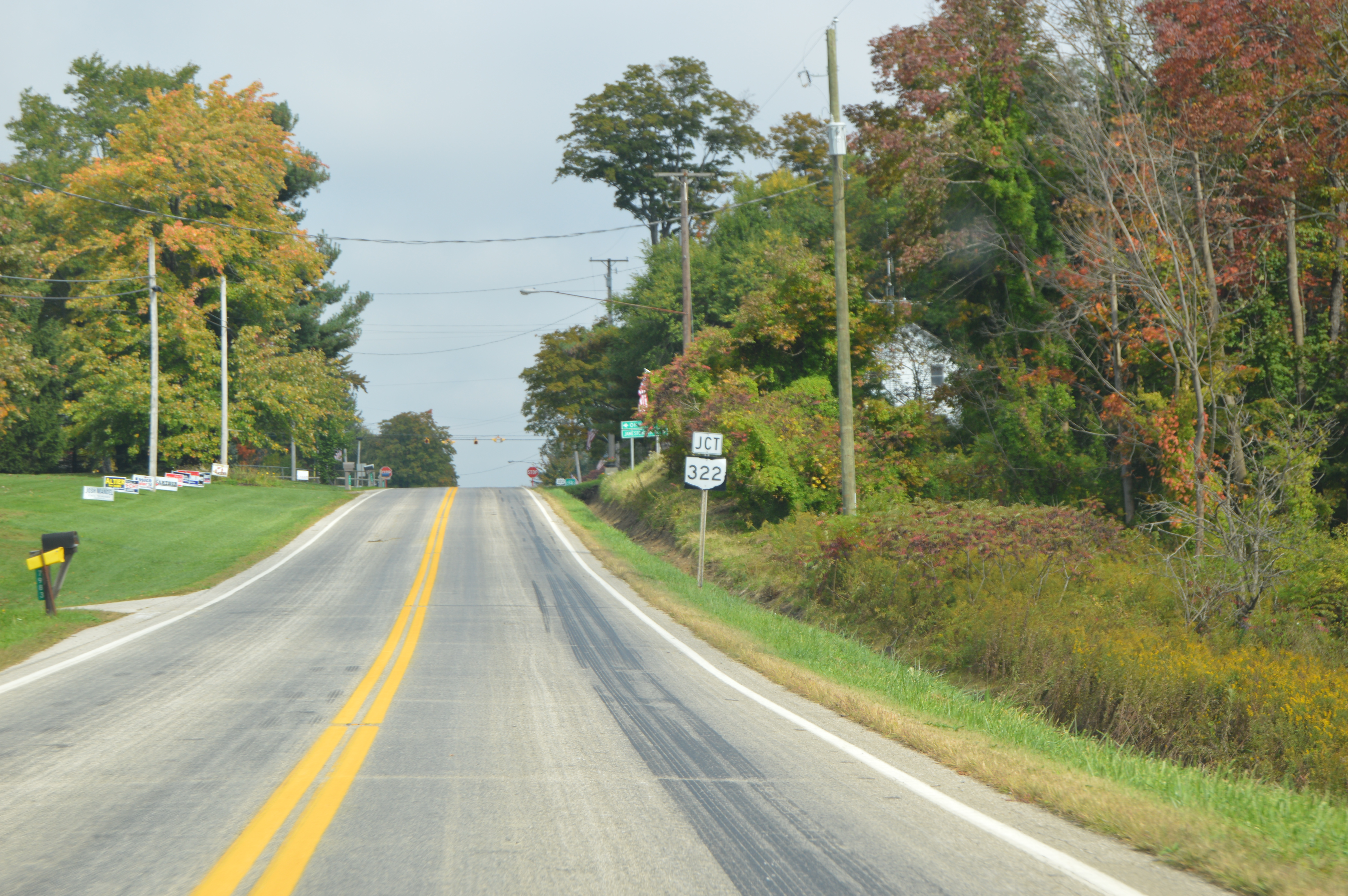 Looking north on State Route 193 heading into Wayne Center, Ohio, United States. The sign indicates an upcoming intersection with State Route 322, but this is actually U.S. Route 322.